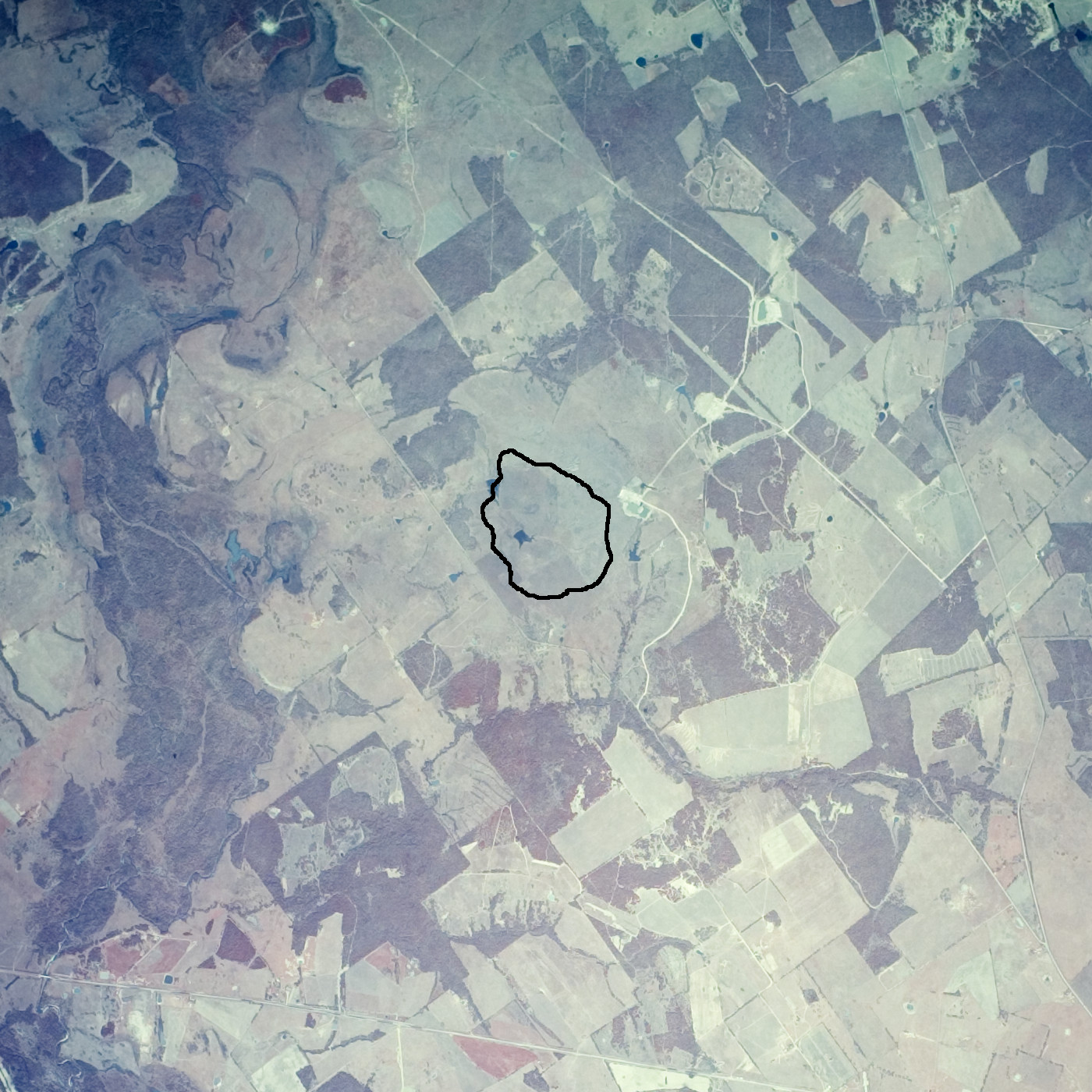 Black outline shows extent of Cretaceous rocks in the center of the Marquez Dome, which is a buried impact crater. The air photo is dated 8 March 1982. The outline is based on Geologic atlas of Texas, Waco sheet, dated 1970. Texas Highway 7 crosses diagonally at the bottom of the image and the town of Marquez lies out of the frame beyond the southeast corner. The Navasota River trends north-south along the left edge. The image is approximately 7.5 km wide.